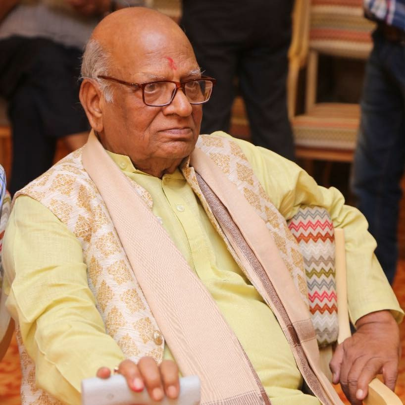 Mr. Narhari Patel, attending a family function at the age of 85 in 2018.